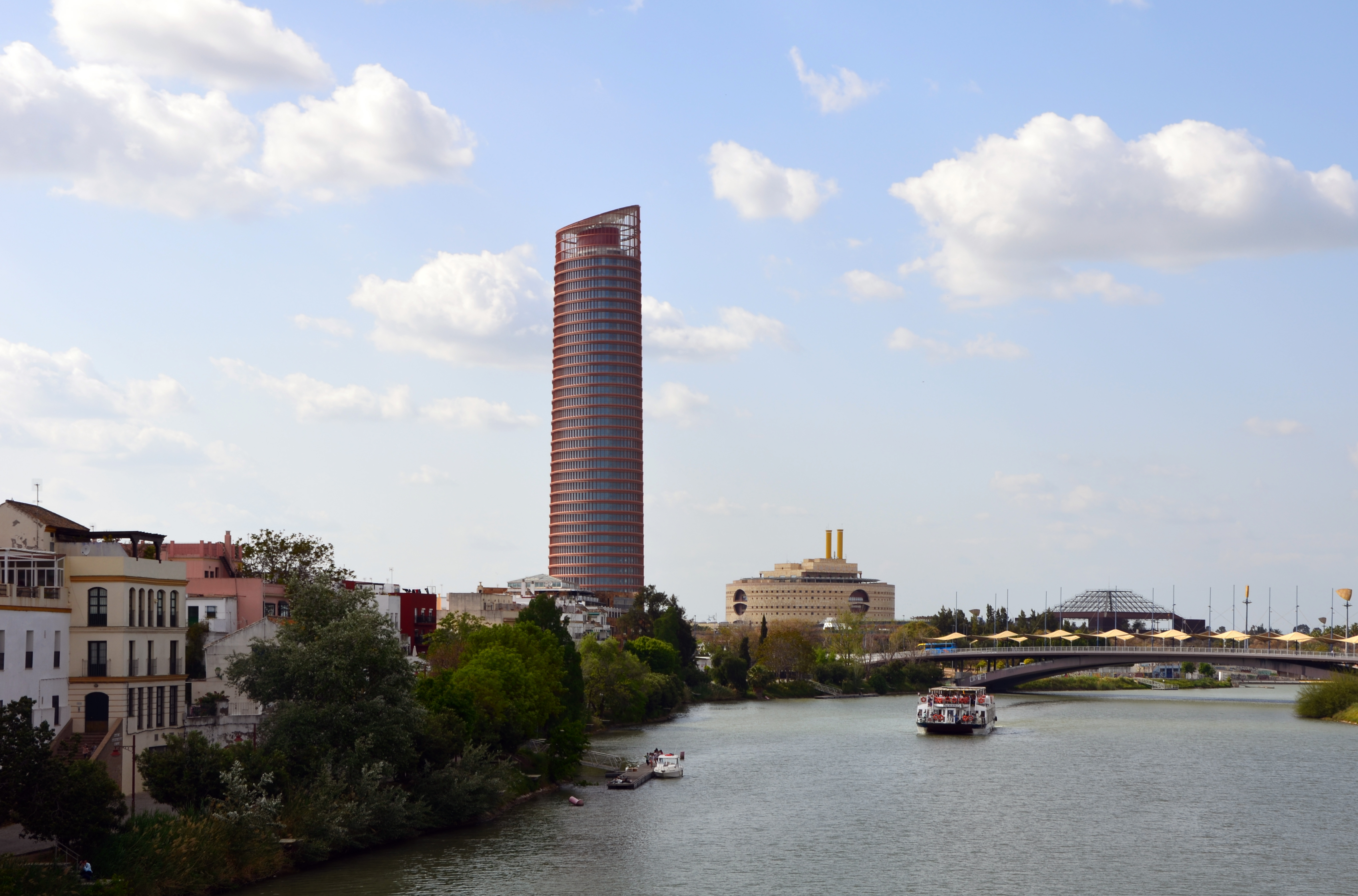 The harbour basin of the Guadalquivir river of Sevilla (Spain) with, from left to right : buildings of the neighbourhood of Triana, the Sevilla Tower, the Triana Tower, the Cristo de la Expiración bridge and the Expo building (pyramide-shaped), photographed in april 2015 from the Triana bridge.